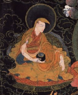 Khardo Zopa Gyatso b.1672 - d.1749